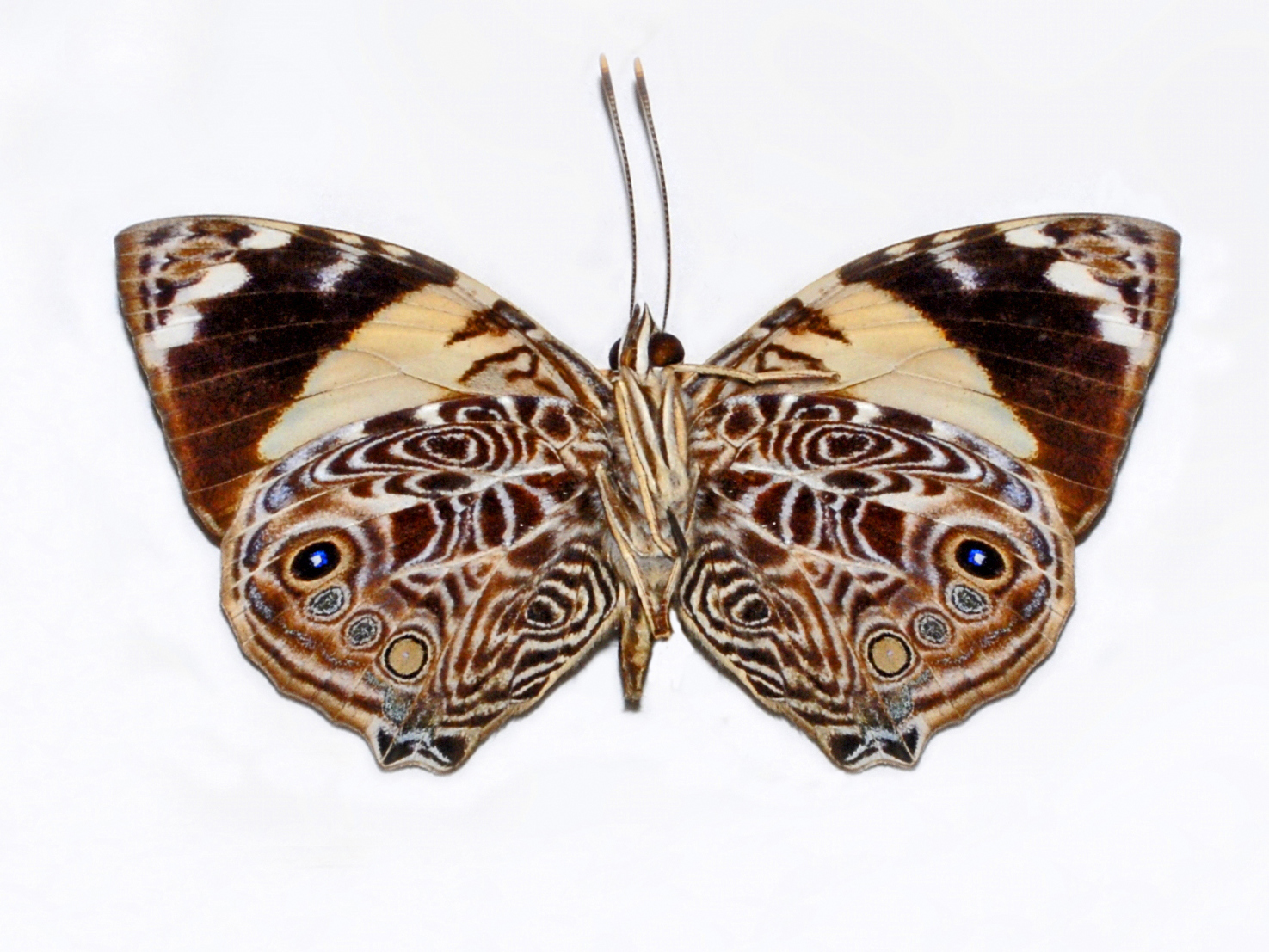 Mounted specimen of Smyrna blomfildia on display at the Civico Museo di Storia Naturale di Trieste